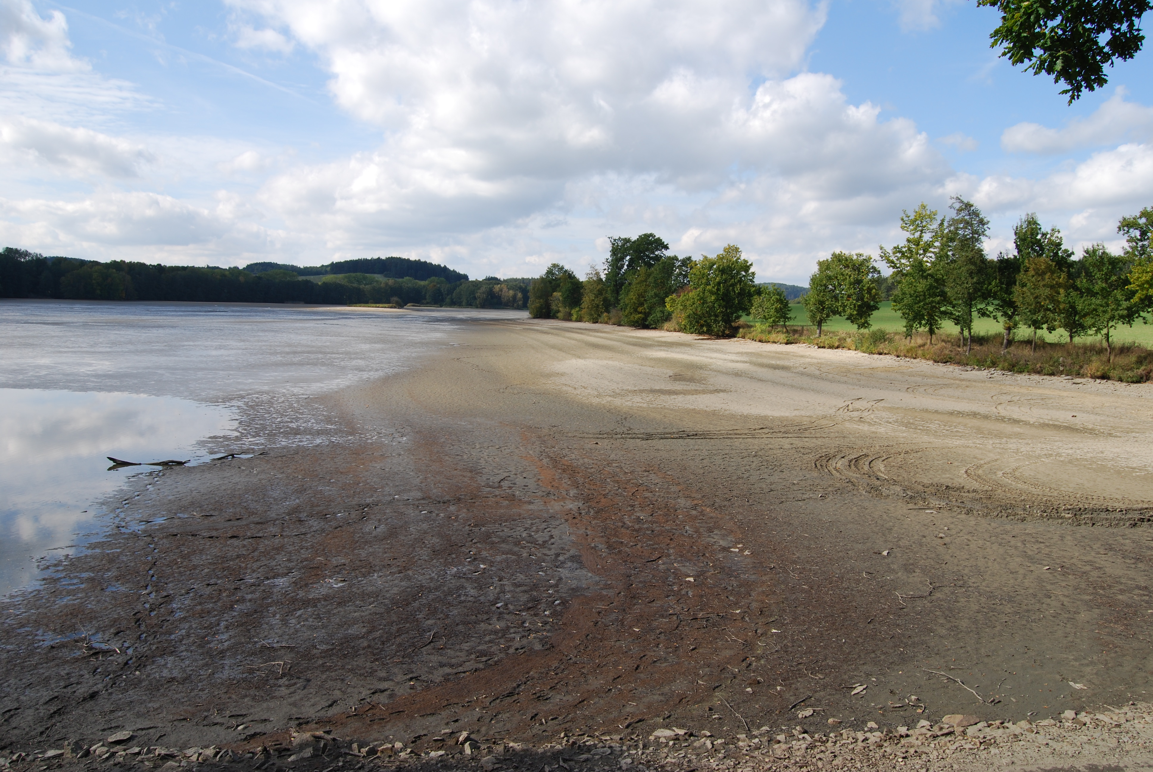 Natural reservation Nový Rybník u Lnář near Tchořovice village in Strakonice District, Czech Republic.